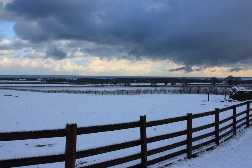 This is one of the many wonderful views from Widdrington Village.